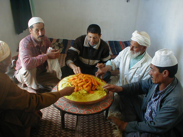 Eating couscous with guests